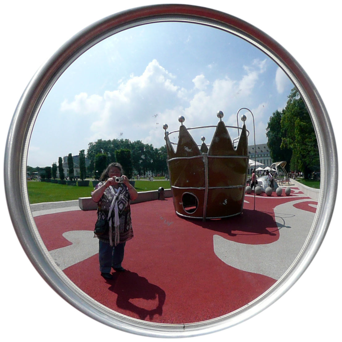 The German journalist Angelika Koller, selfportrait via a public mirror, 2011